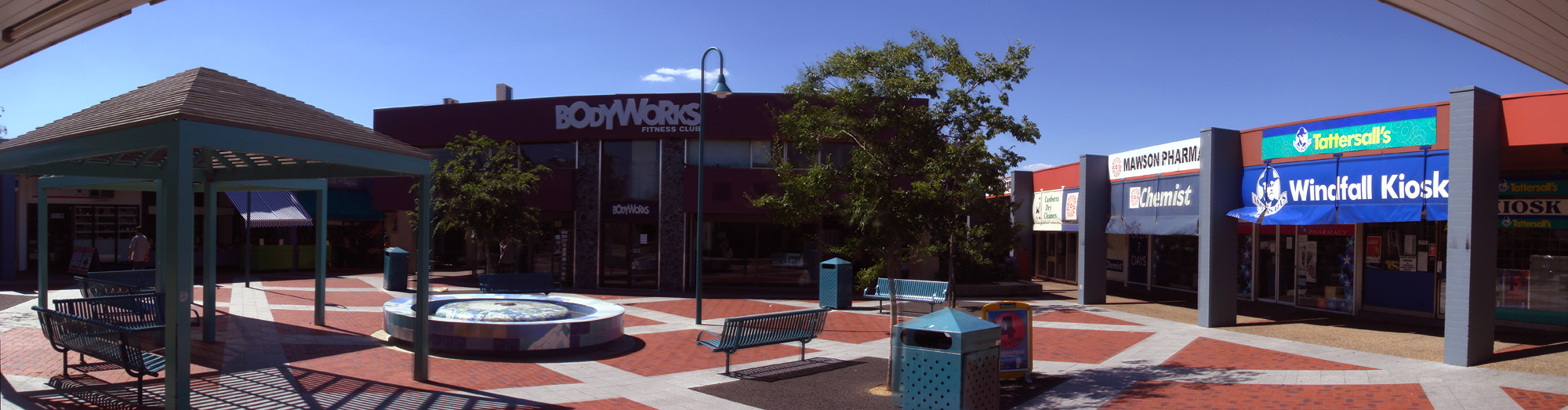 A Panorama of the central courtyard at Mawson Shopping Center. Photographer Details This photograph was taken by Korske.